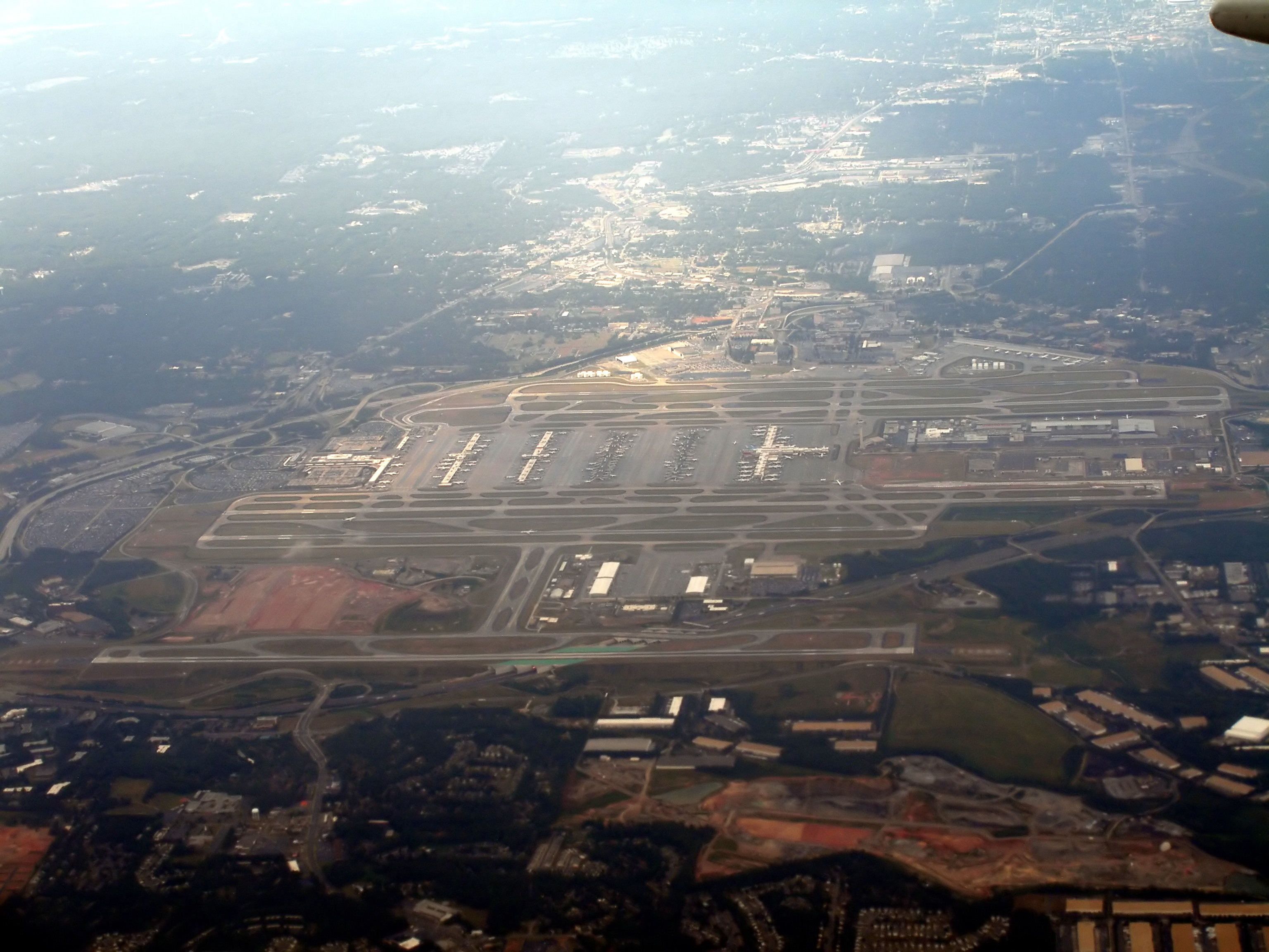 Hartsfield-Jackson Atlanta International Airport as seen from the airplane